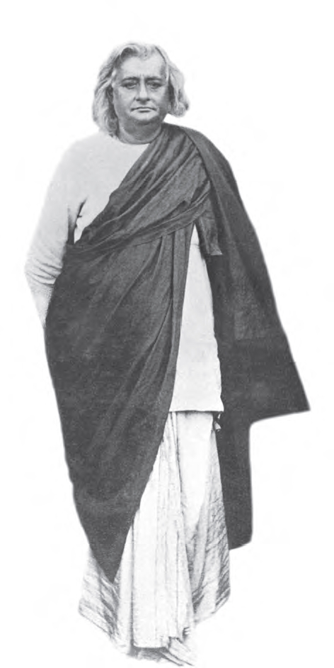 Swami Akhandananda, a direct disciple of Ramakrishna